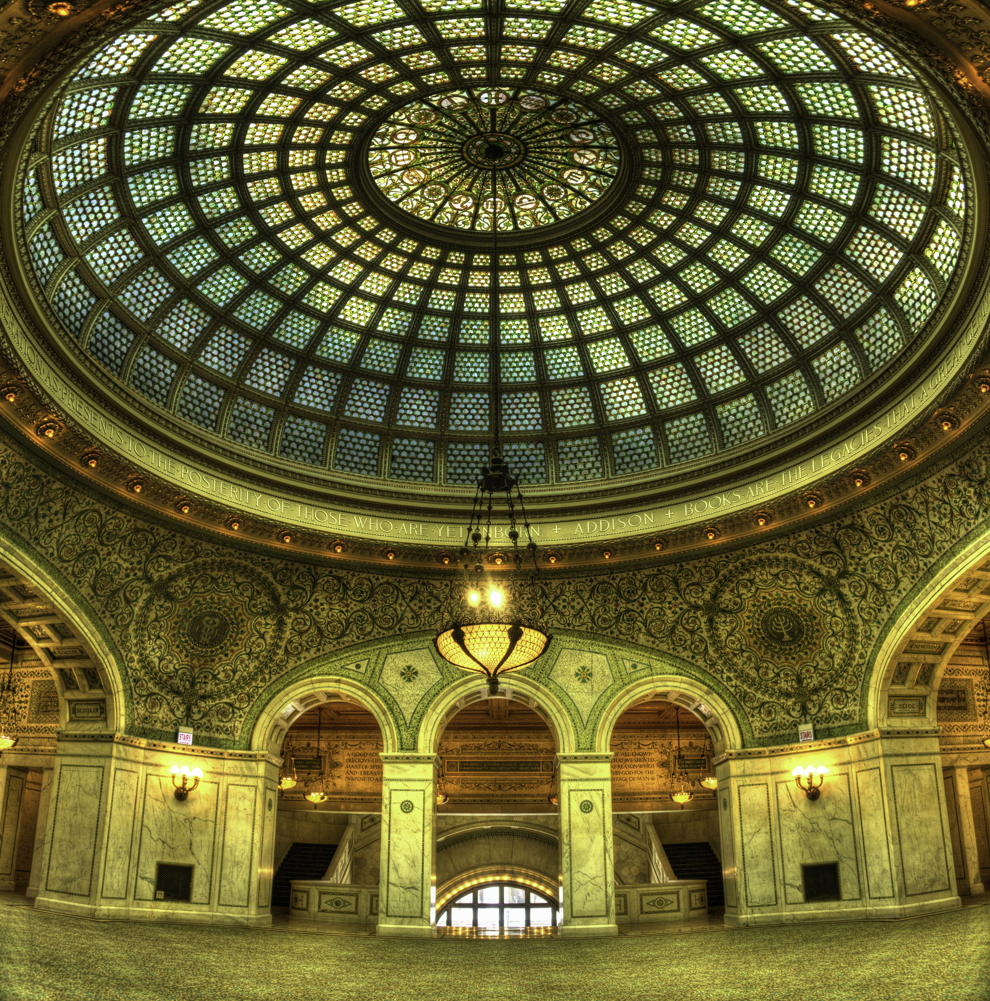 The largest Tiffany dome ceiling resides within the Chicago Cultural Center, former the Chicago Public Library, at Central Building, 78 E. Washington Street Chicago Loop